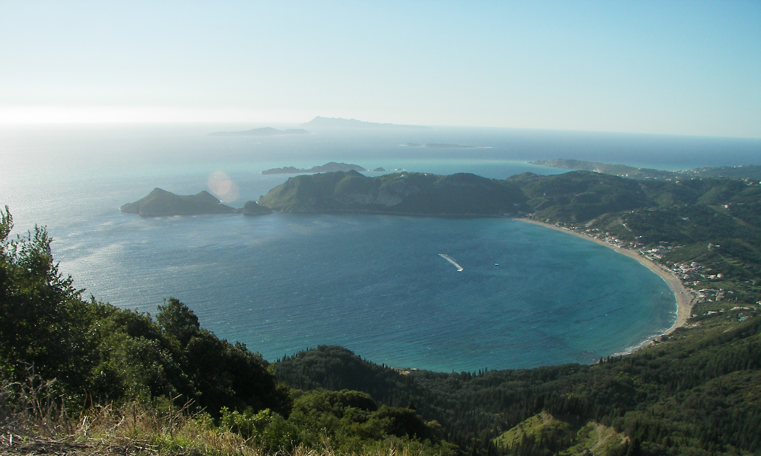 Filename